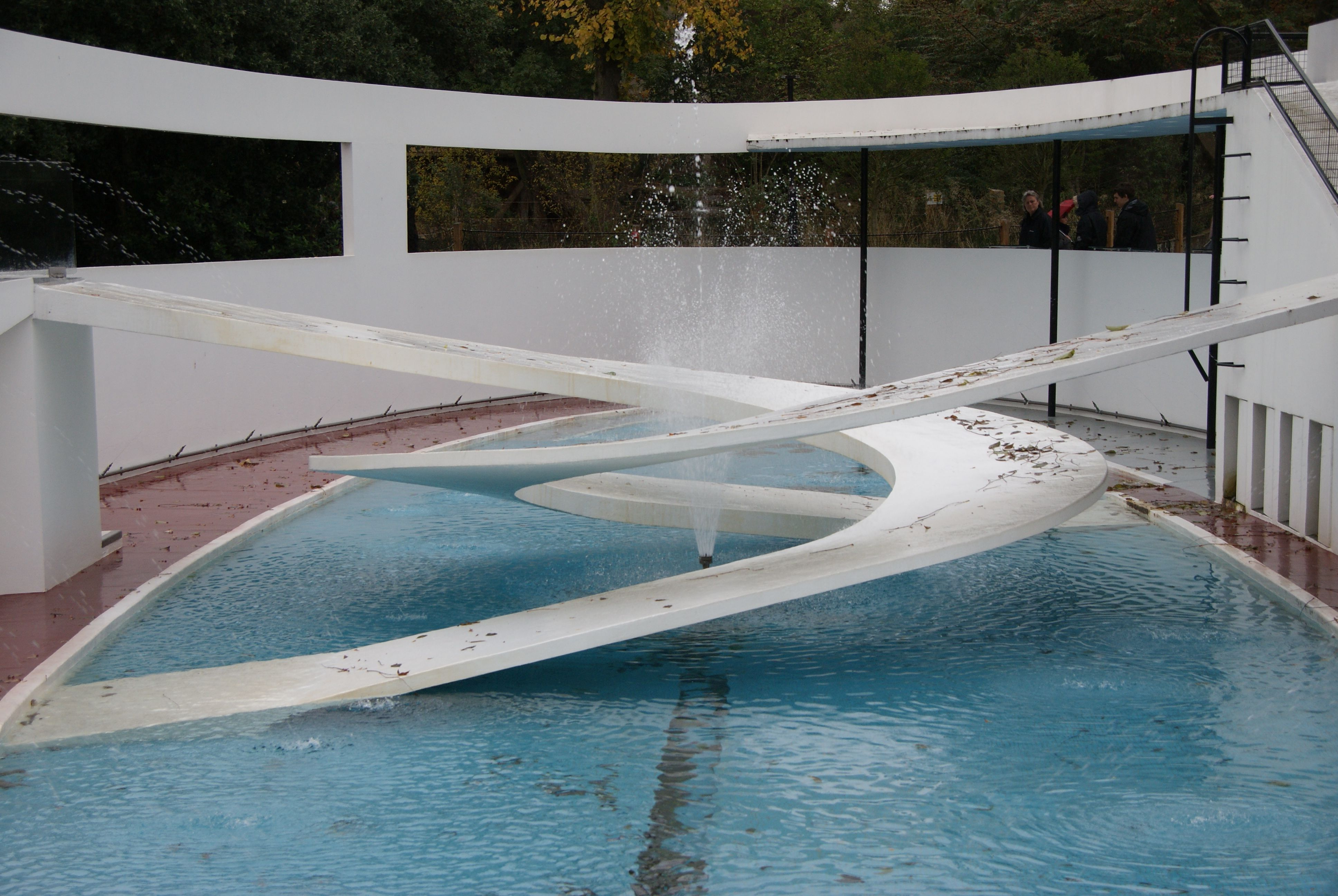 Grade 1 listed Penguin pool, London Zoo, England. Now a water feature and not used to keep Penguins.